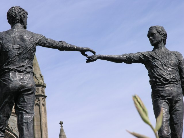 Hands Across the Divide "Hands across the Divide" is a bronze statue that stands just off the Craigavon Bridge on the entrance to the West Bank of Derry City.